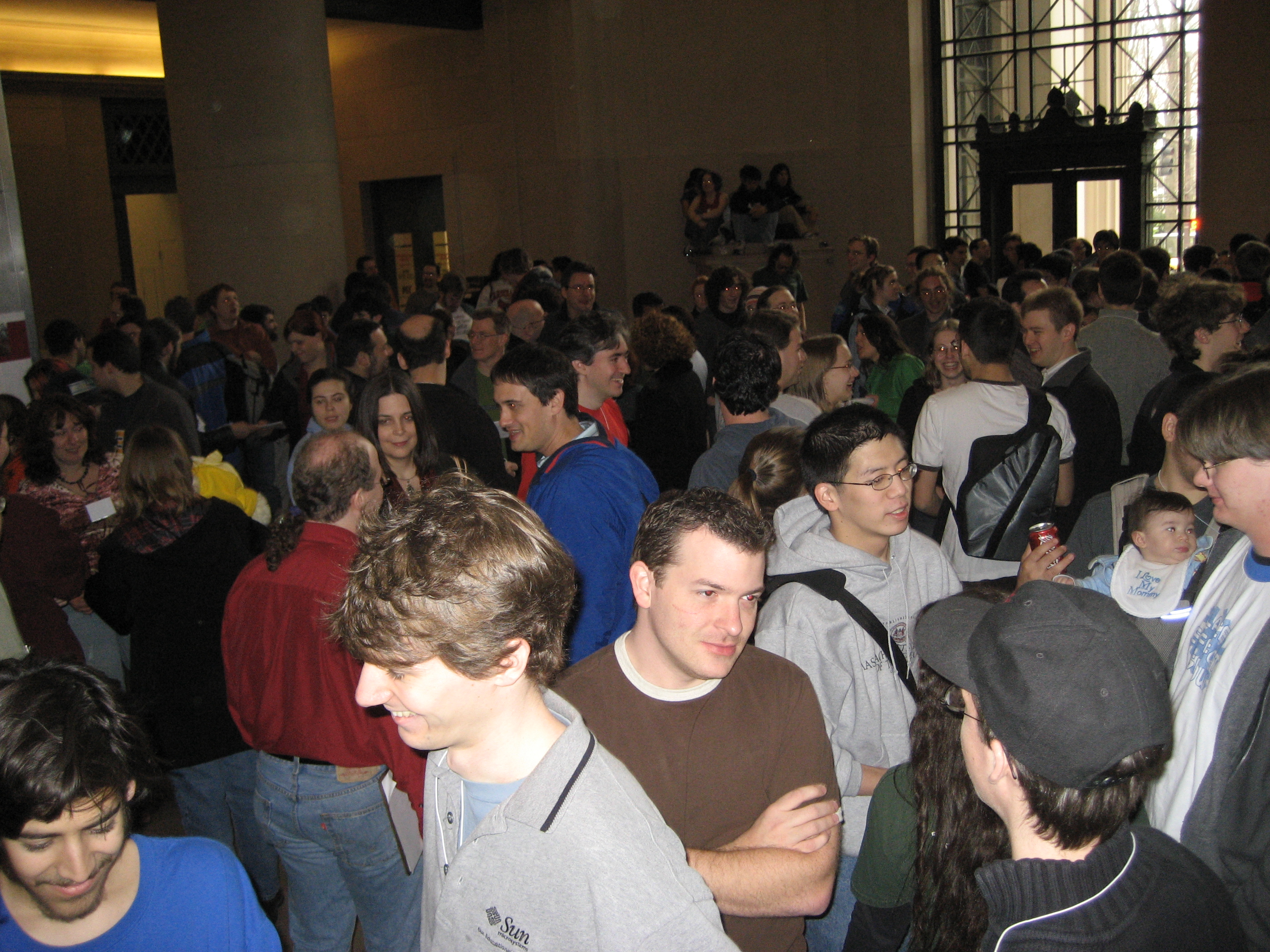 The start of the MIT Mystery Hunt takes place in the lobby of Building 7. Photo by user "barakmich" on Flickr. [1]